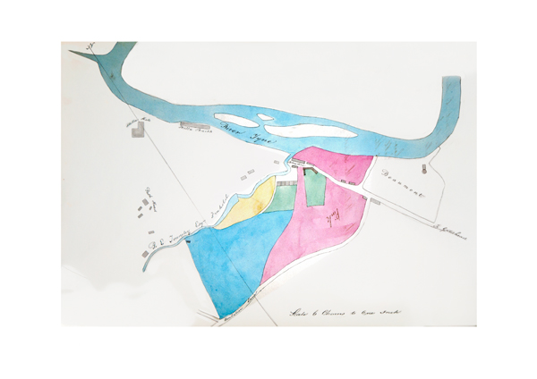 Thomas Young Hall's development of the Stella Staithes and adjacent land in Blaydon, the subject of legal action in 1851. The original from which this has been scanned is in the North of England Institute of Mining and Mechanical Engineers. It is in the T. Y. Hall papers. The scan and the upload to Wiki Commons have been made with the permission and direction of their librarian Jennifer Kelly.